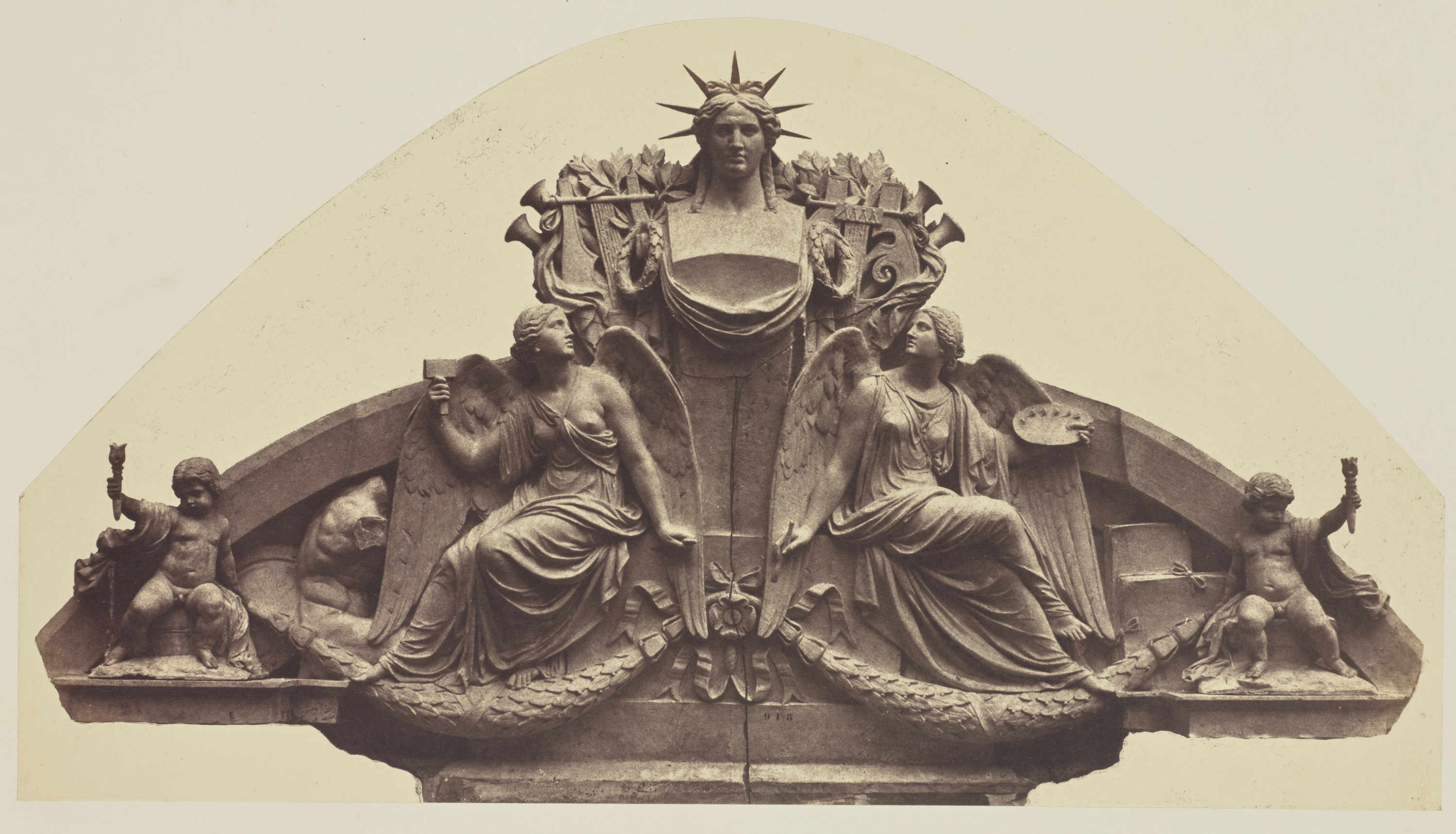 Photograph by Édouard Baldus of "La Sculpture et la Peinture", sculpture by François Félix Roubaud, Decoration of the Louvre, Paris